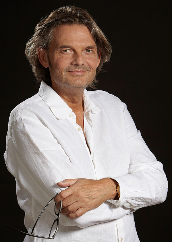 GuentherKlein2013